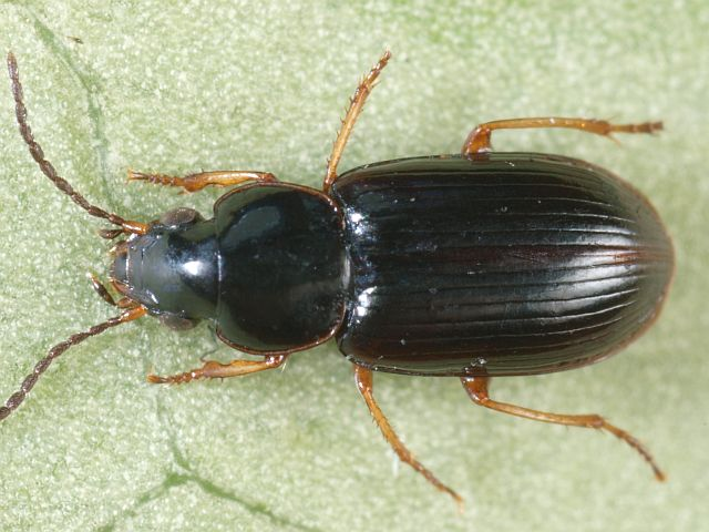 Acupalpus brunnipes, location: The Netherlands - Oss - Stelt en De Haag